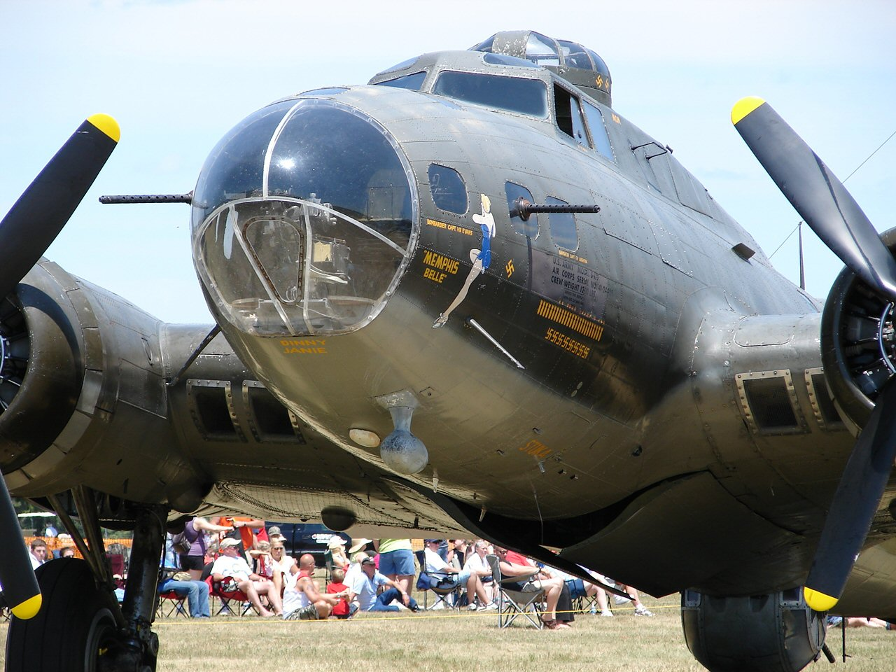 This B-17 is based out of Geneseo, NY and is "Memphis Belle" She is the sister ship to the original Belle that is residing in Memphis Tennessee.